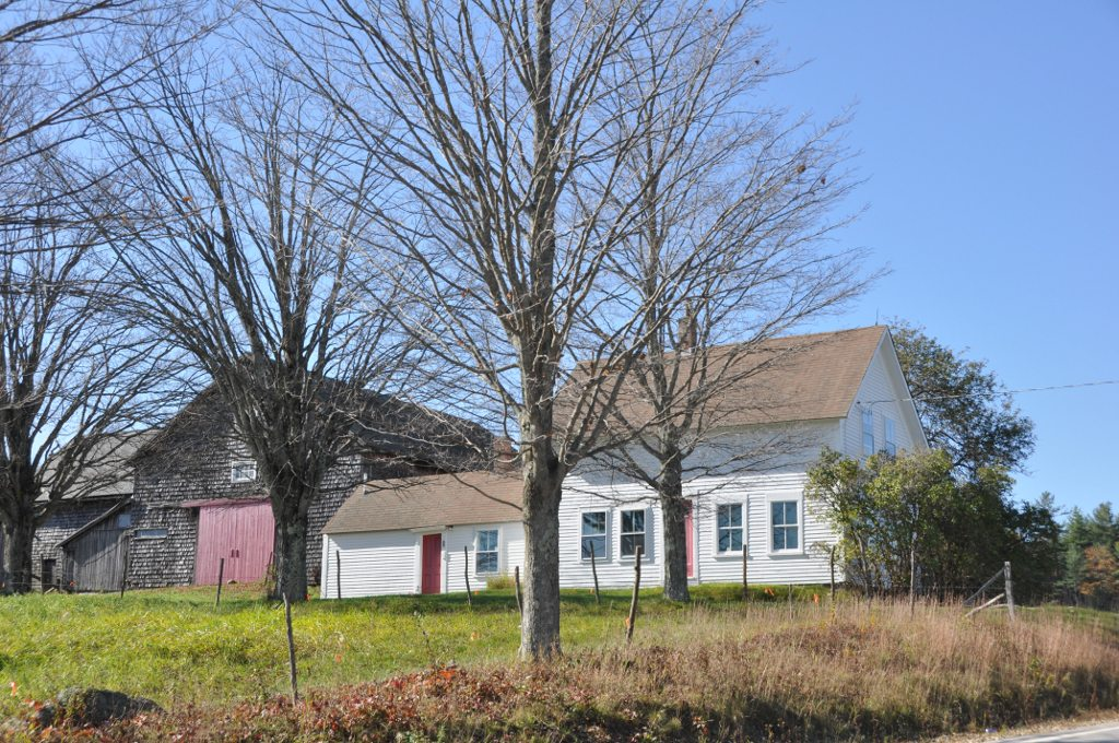 1088 Franklin Highway, part of the Hersey Farms Historic District of Andover, New Hampshire.